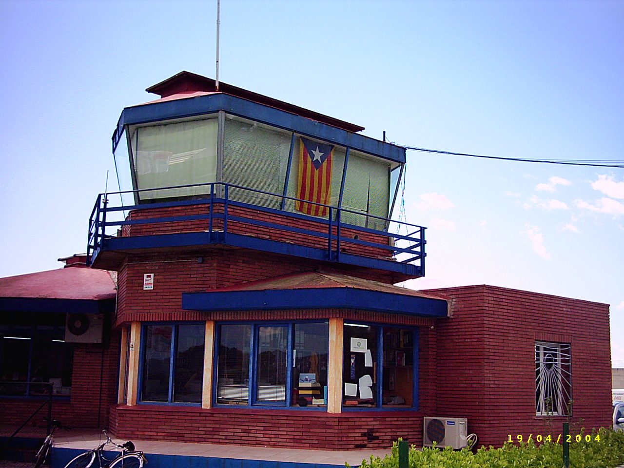 Tower